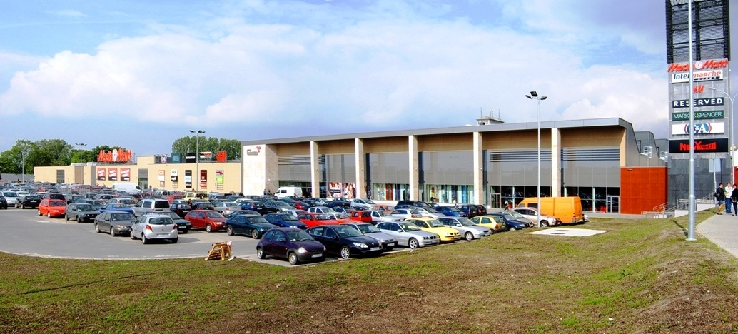 "Galeria Twierdza" (eng. "Stronghold Gallery") shopping mall in Zamość, Poland